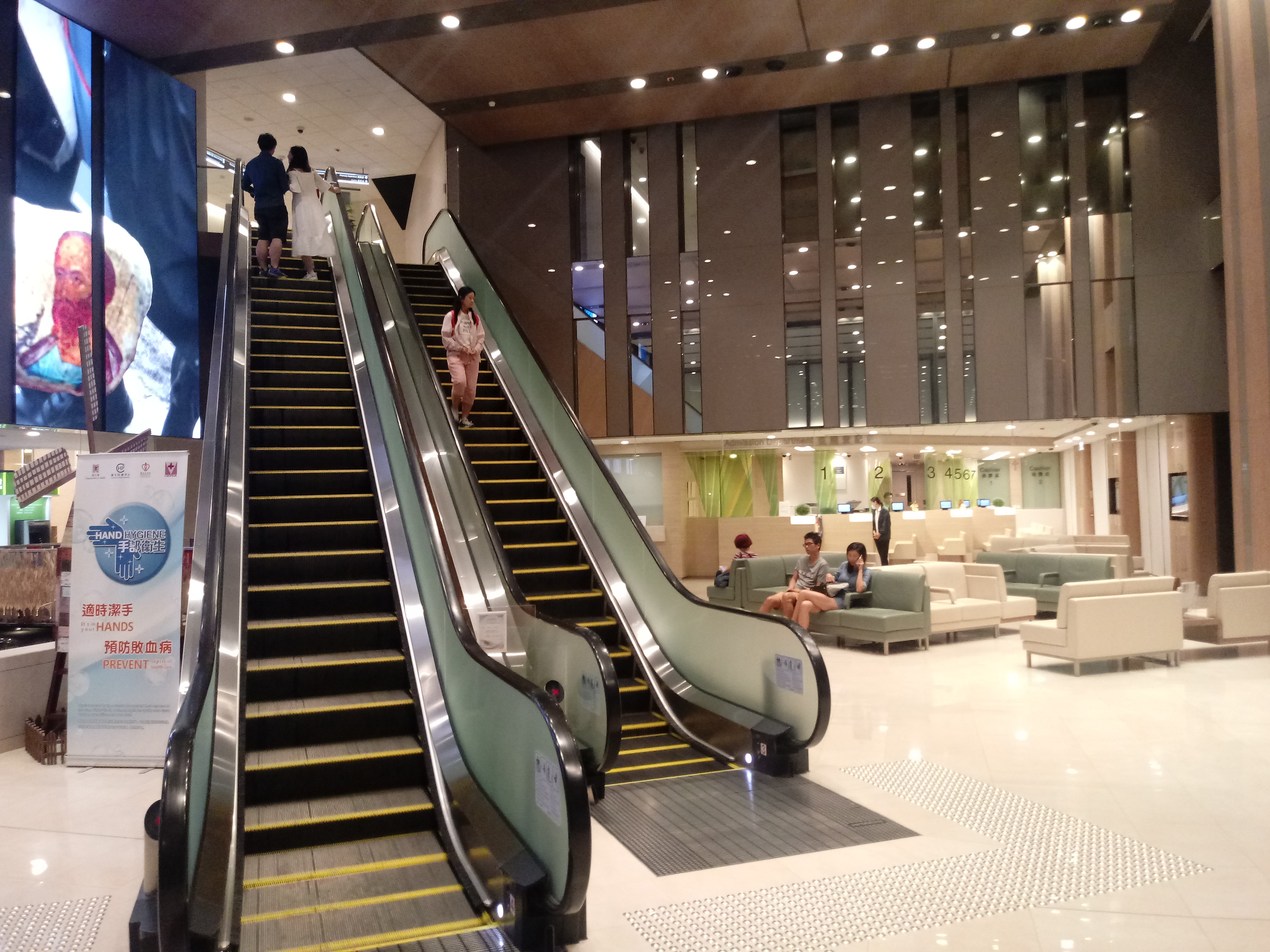 HK CWB 銅鑼灣 Causeway Bay 聖保祿醫院 Saint Paul's Hospital lobby hall interior July 2018